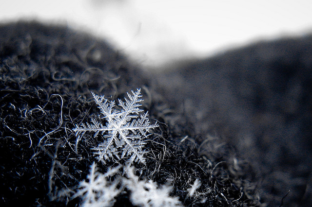 Snow flake